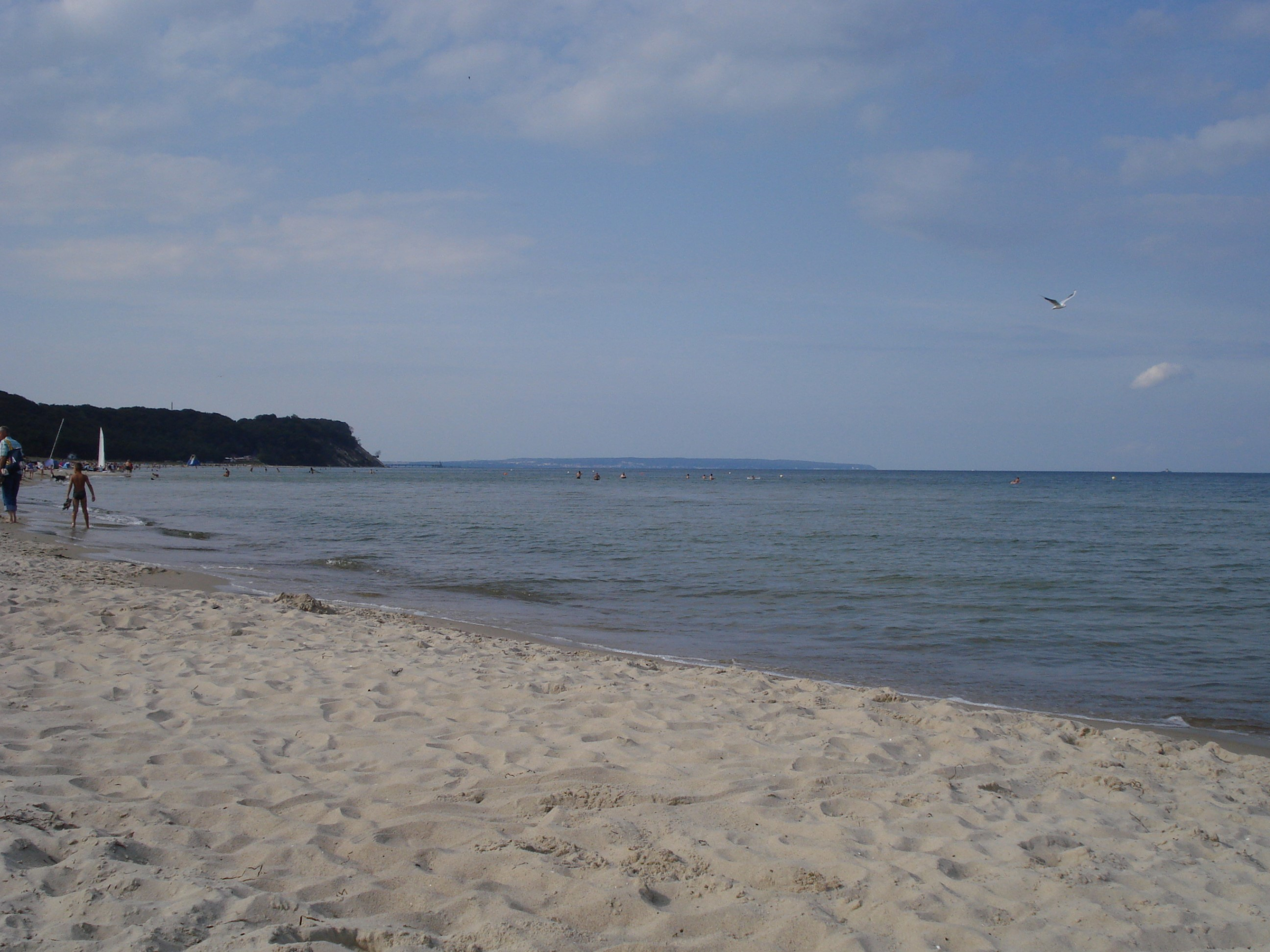 Beach